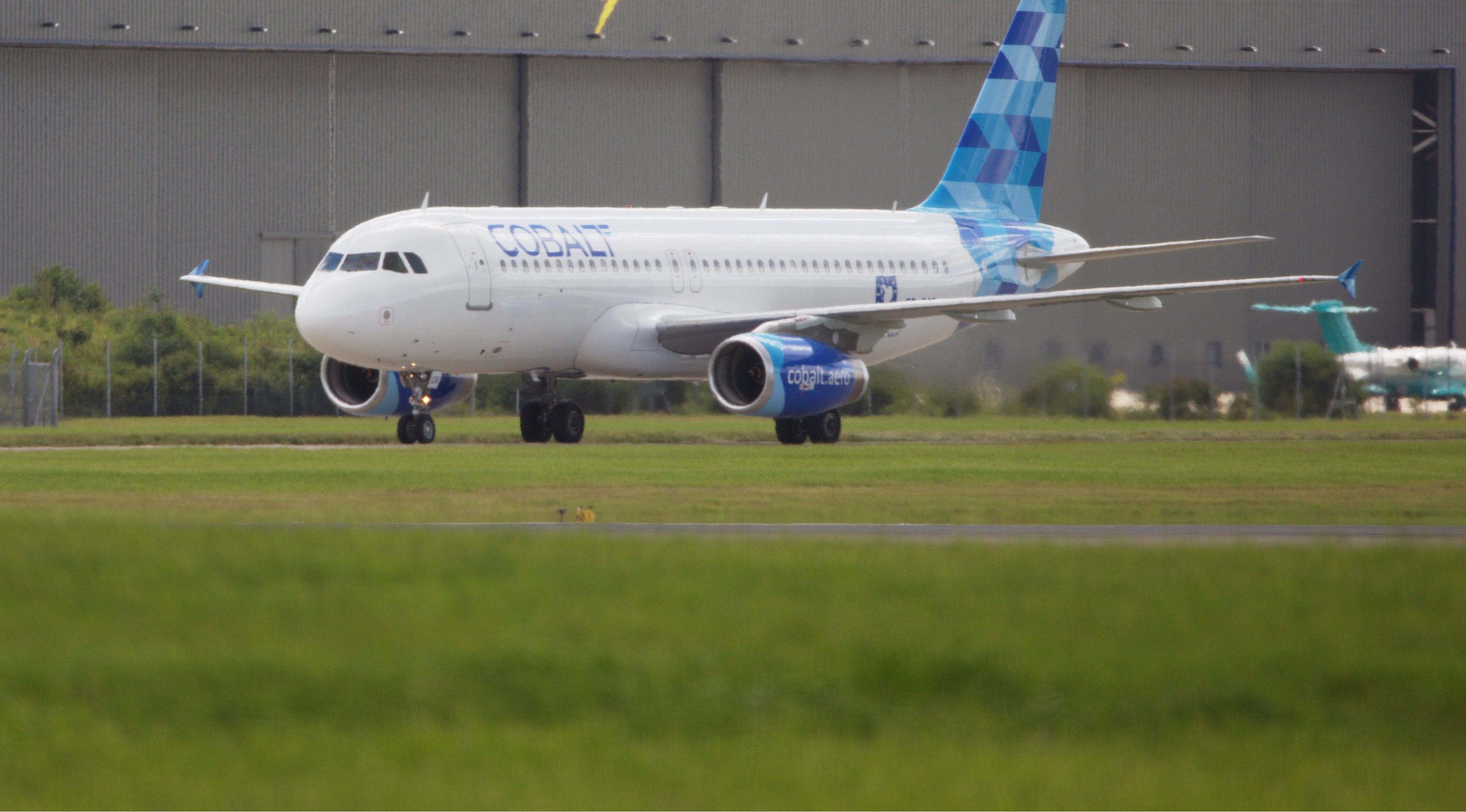 At Stansted